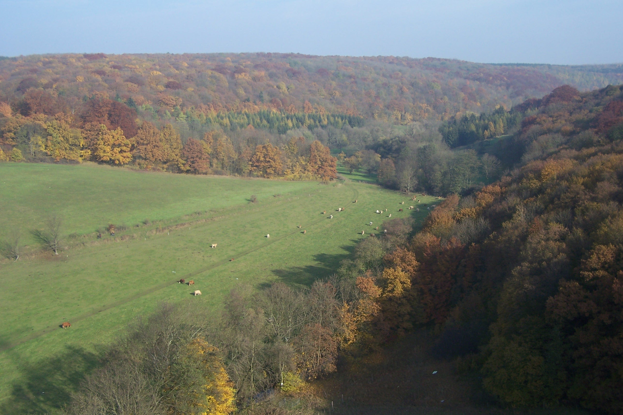 A view of the Nesse-dale near Ebenheim and Haina.